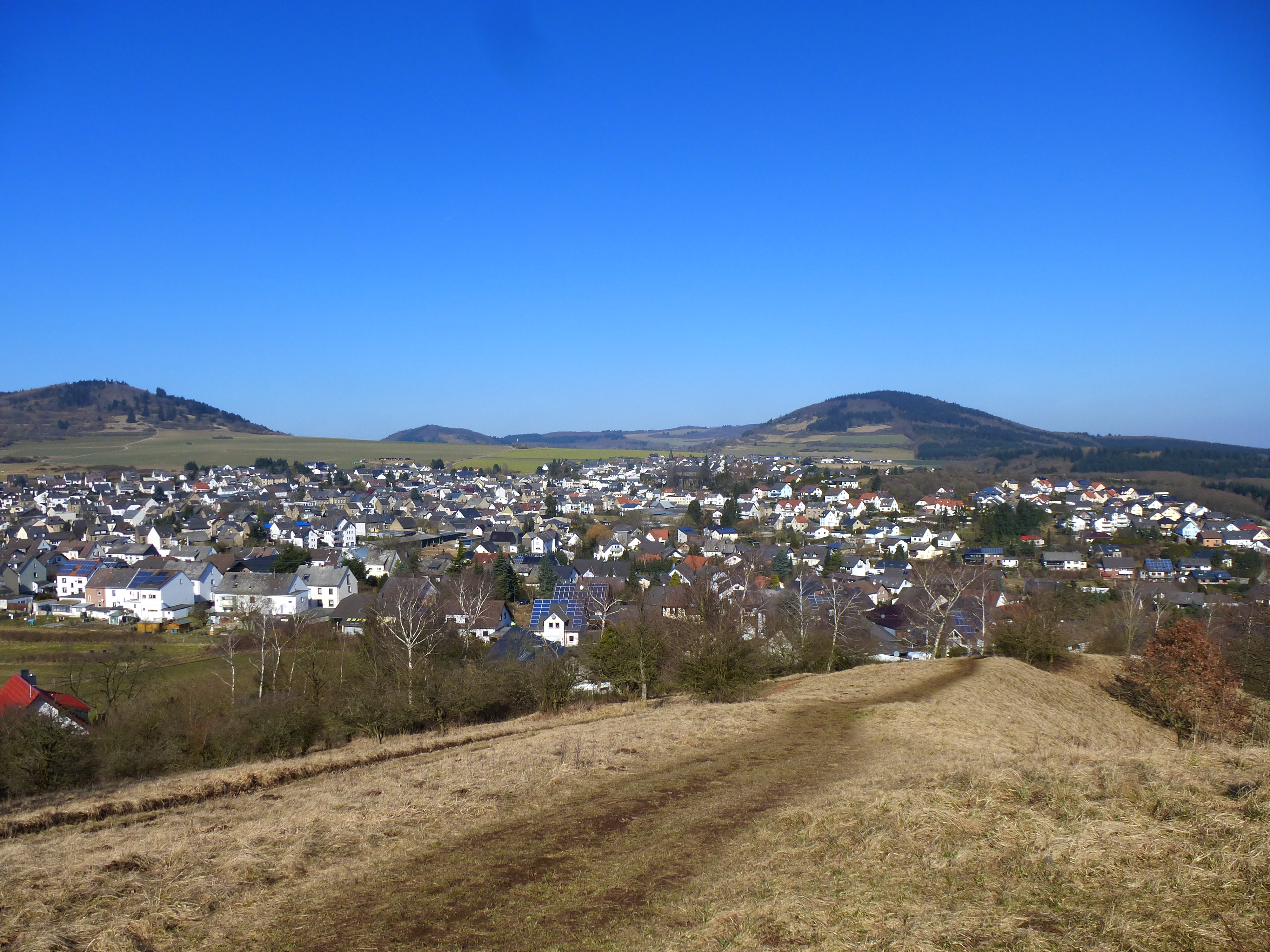 Ettringen (district Mayen-Koblenz, Rhineland-Palatinate, Germany) from SSE, view fromout the Ettringer Bellerberg